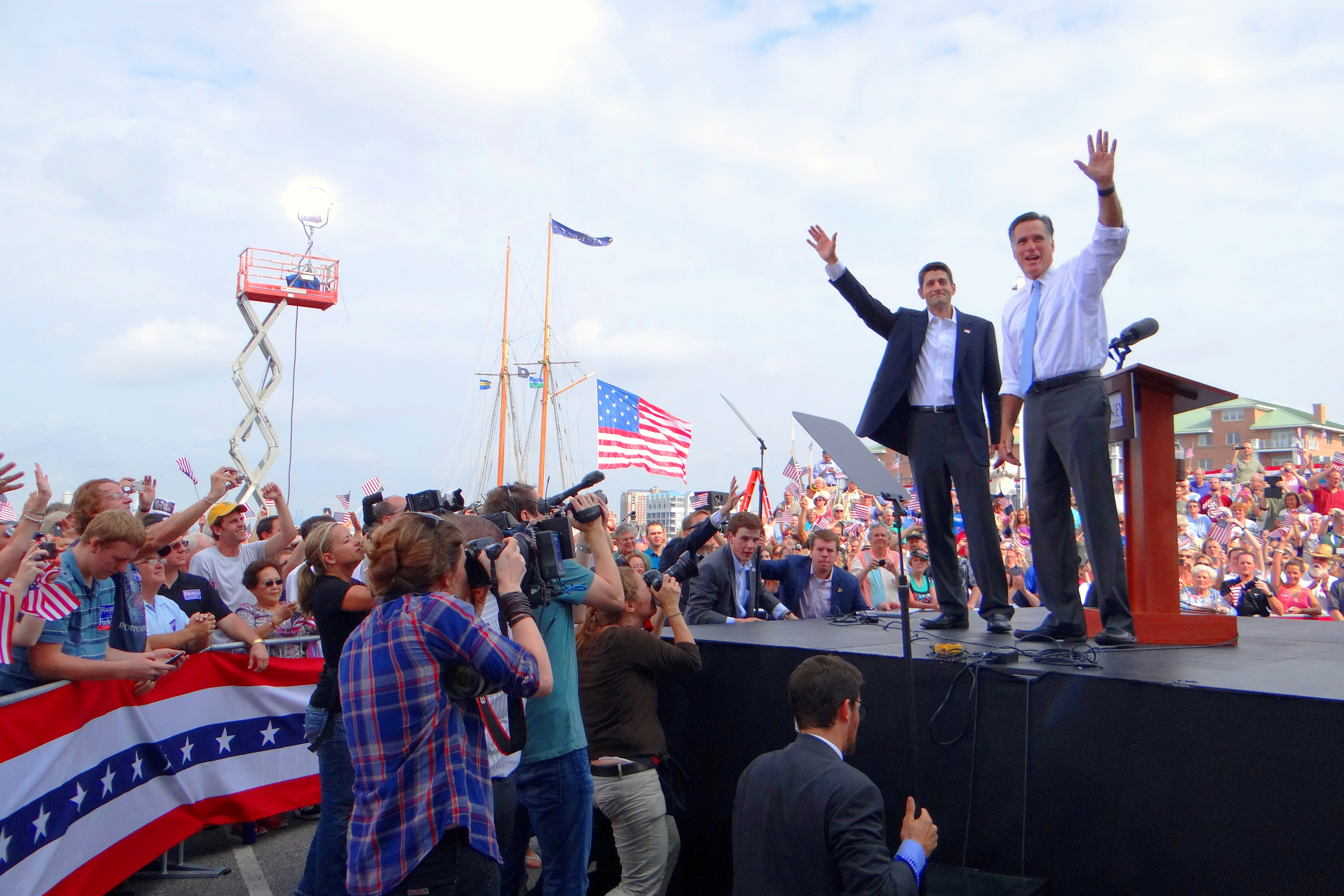 Taken at the Mitt Romney rally in Norfolk, VA. 08/11/12